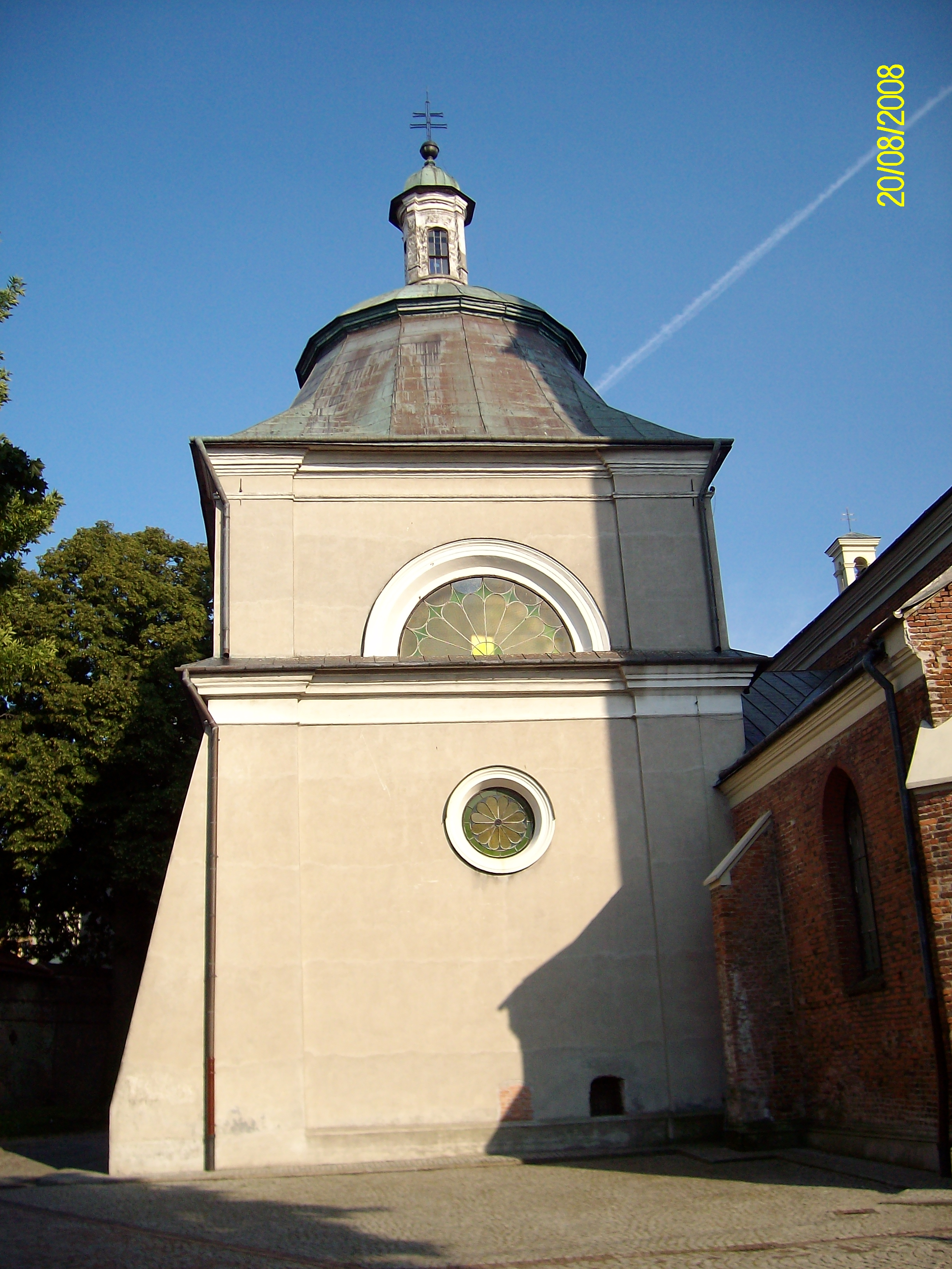 Tomb of Jesus Christ Chapel in Przeworsk